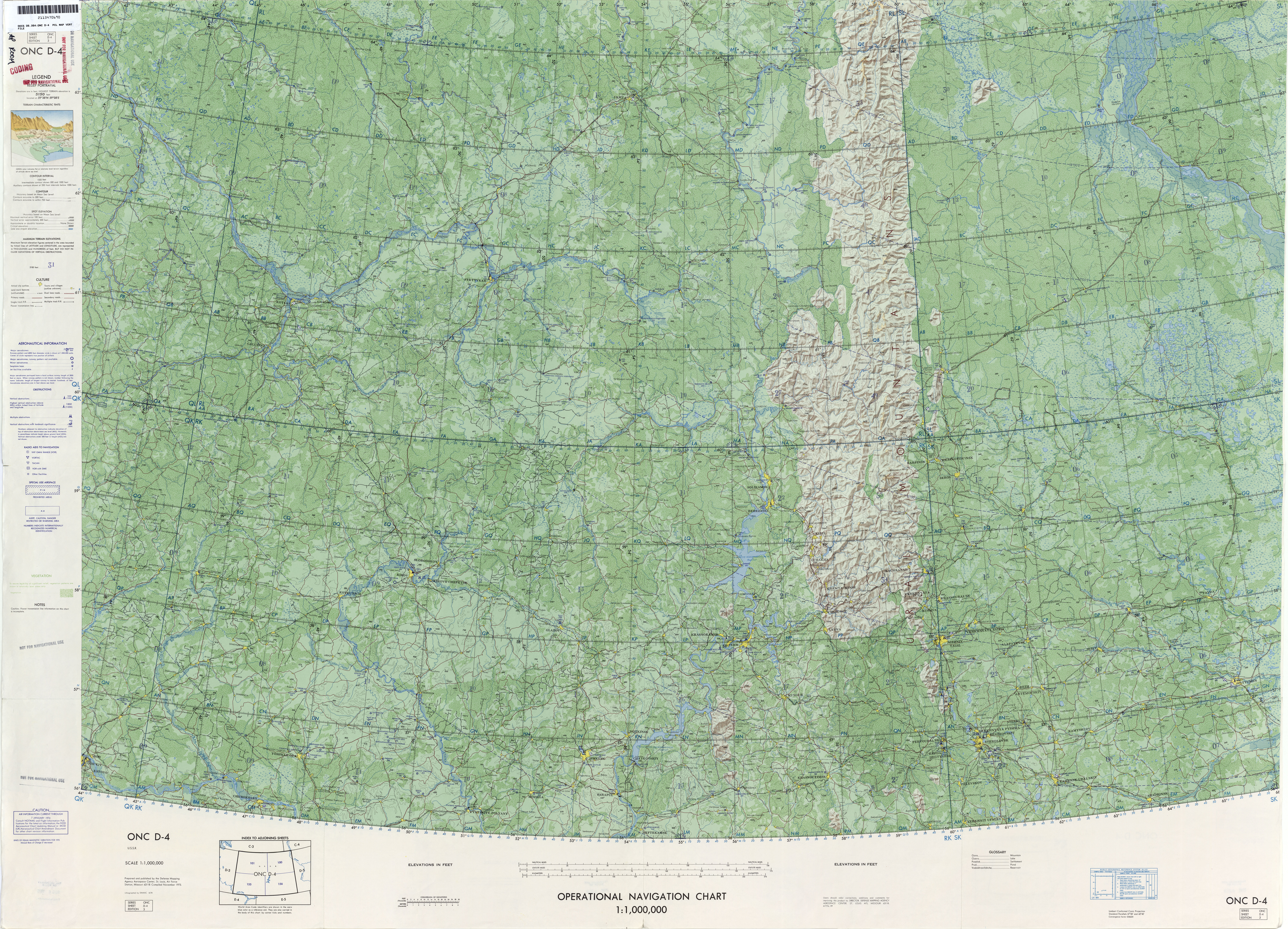 1:1,000,000 scale Operational Navigation Chart, Sheet D-4, 3rd edition. Covers the U.S.S.R. Lambert Conformal Conic Projection. Standard Parallels 57 20N and 62 40N. Center longitude 55E.